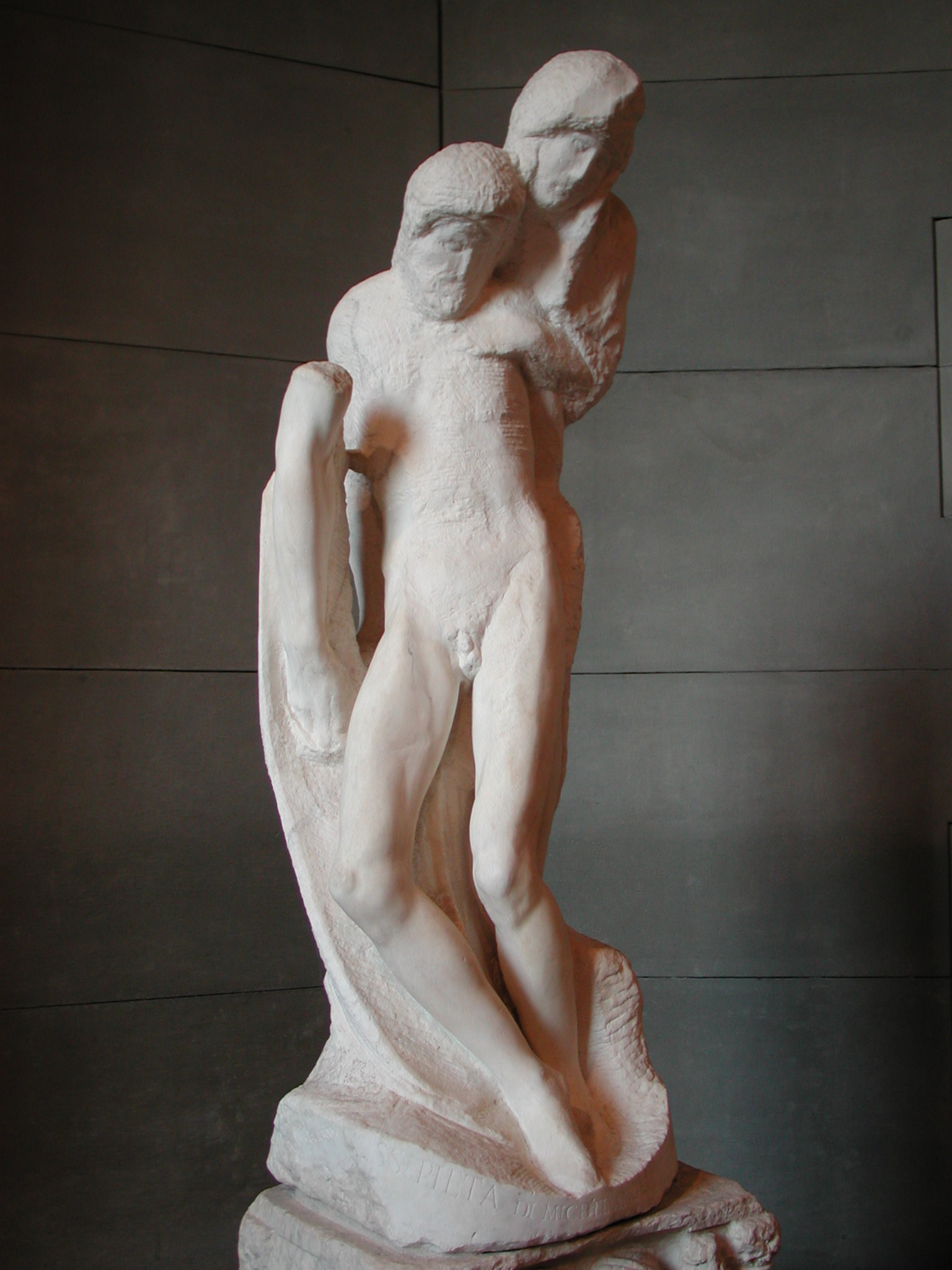 Michelangelo, the so called "Pietà Rondanini", his last, incomplete sculpture (1564). It is now patrimony of the Museo d'arte antica in the Sforza Castle in Milan, Italy.